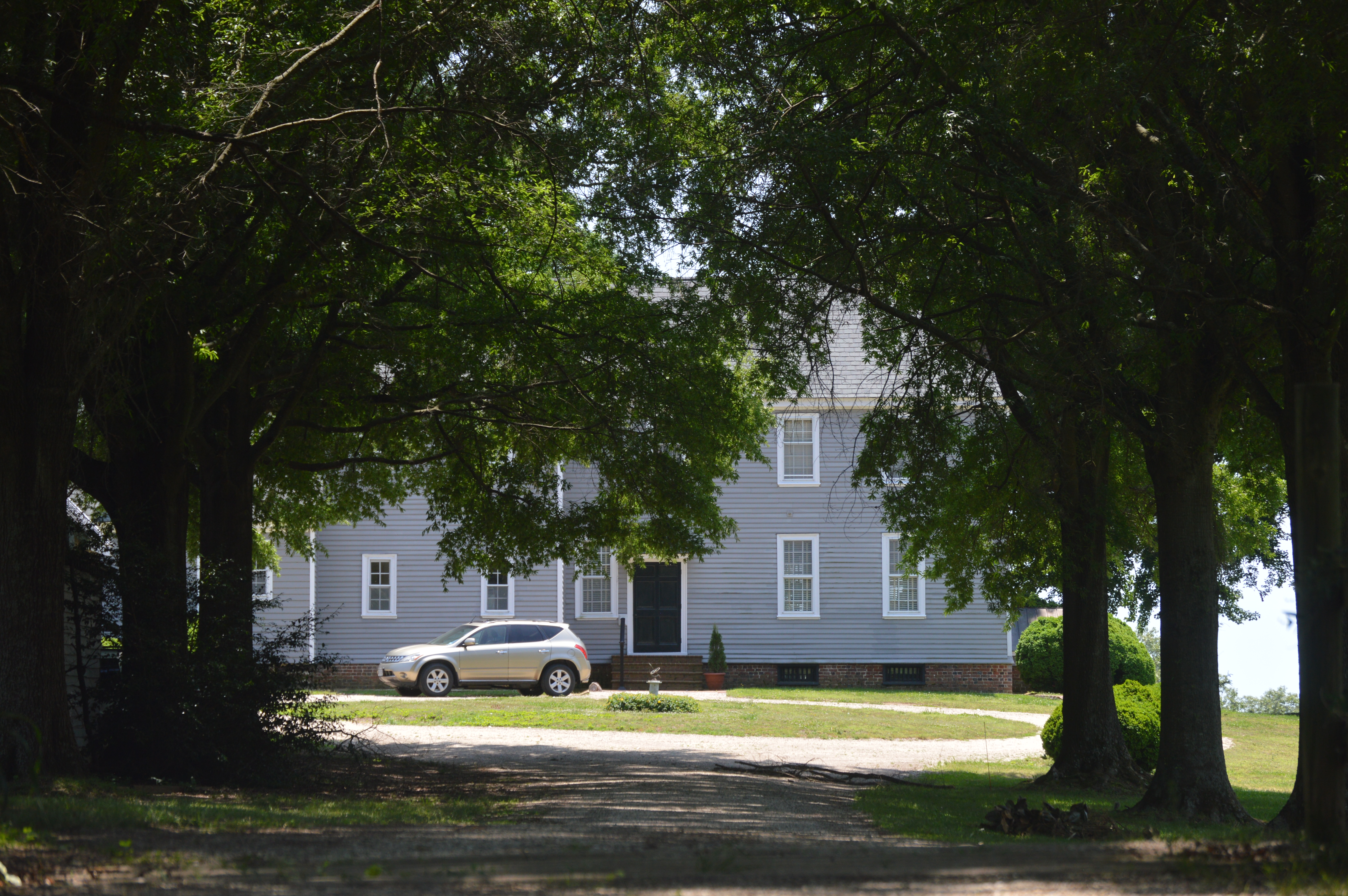 Front of Grove Mount, located on Grove Mount Road northwest of Warsaw in Richmond County, Virginia, United States. The house is listed on the National Register of Historic Places.